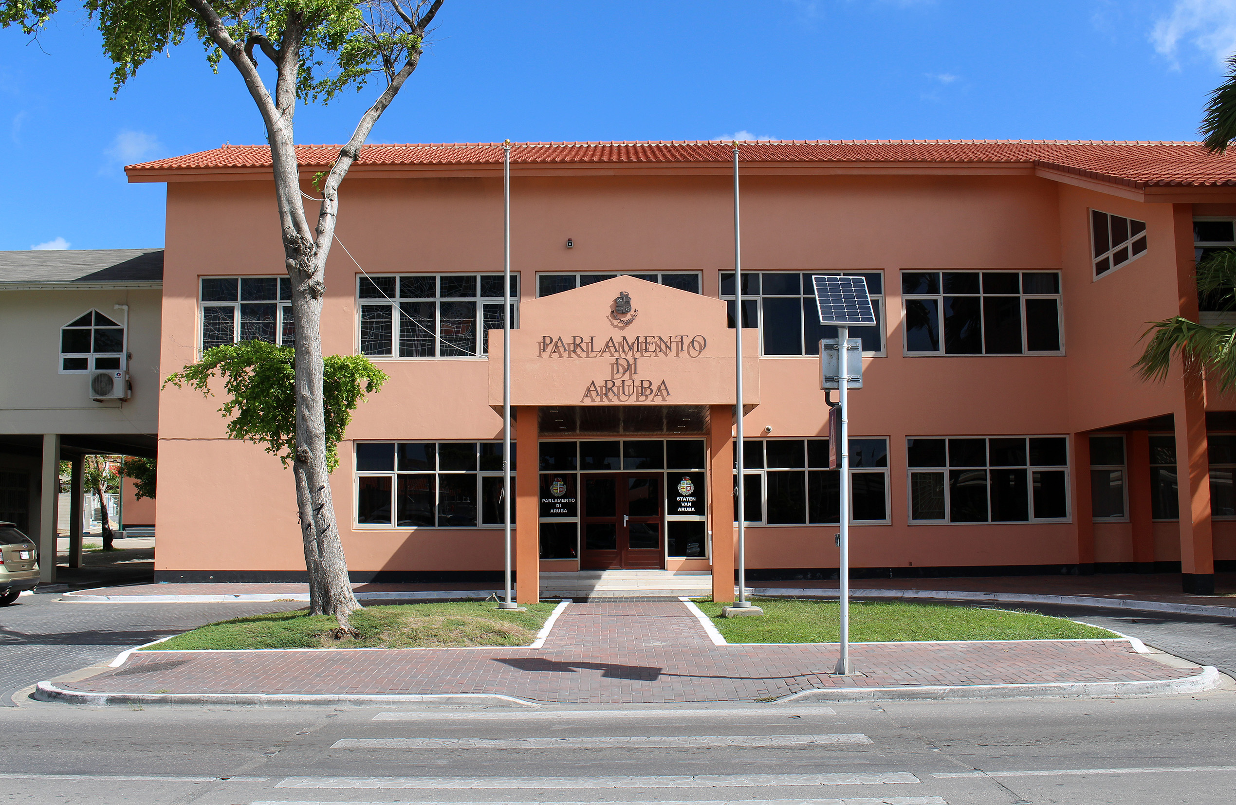 The Parliament of Aruba in Oranjestad, Aruba. Photographed by user Coolcaesar on November 30, 2014.